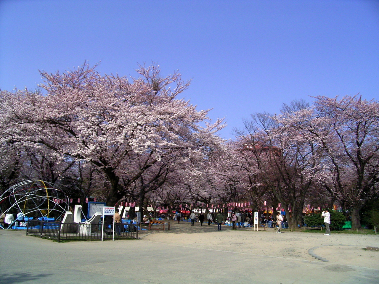 West Park ,Sendai, Miyagi, Japan, in the cherry blossom season.